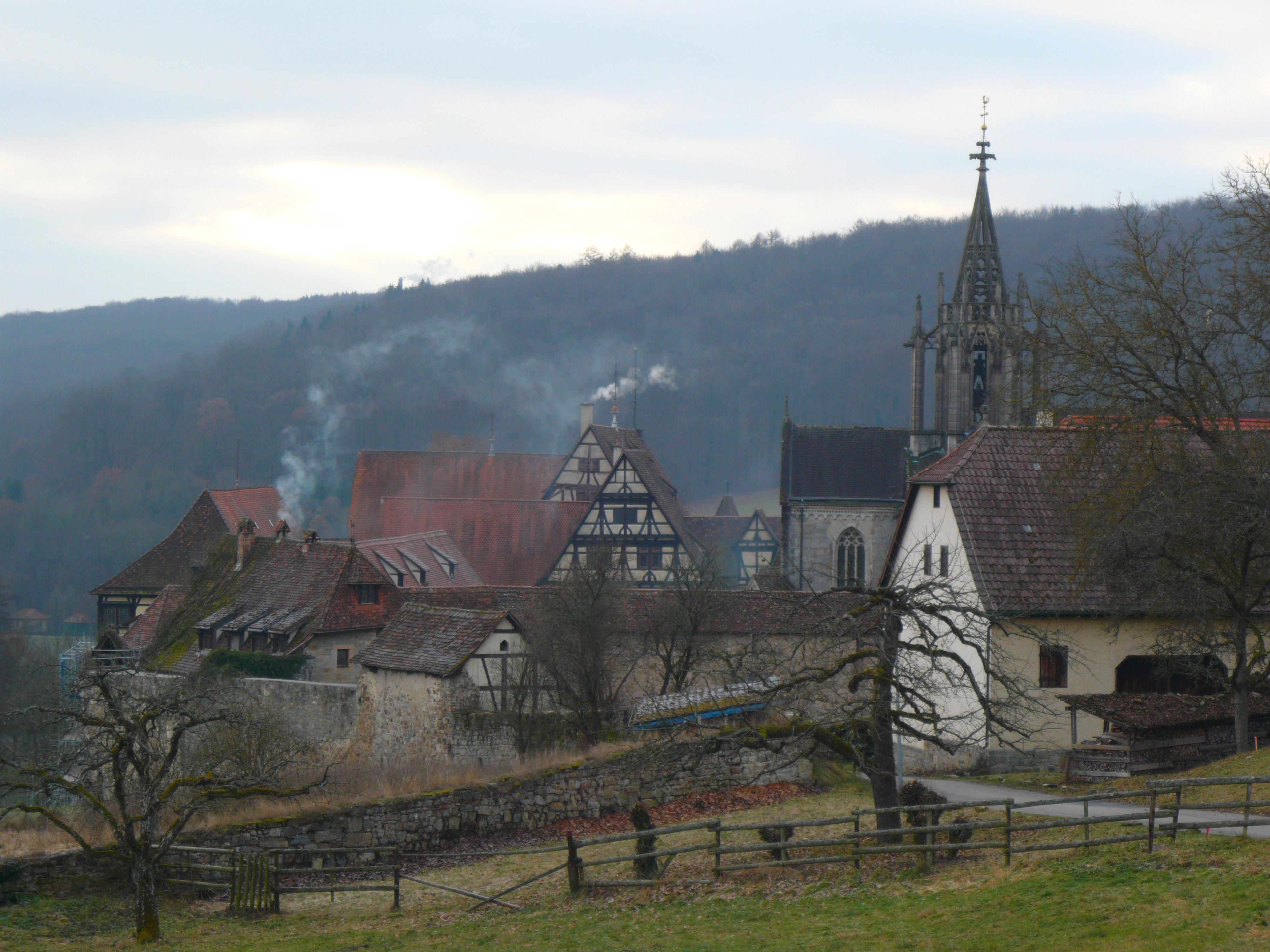 The village of Bebenhausen near Tuebingen